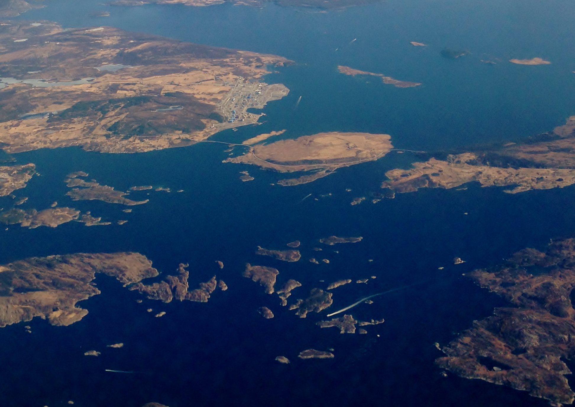 Kårstø Plant and Ognøy Island, Rogaland, Norway